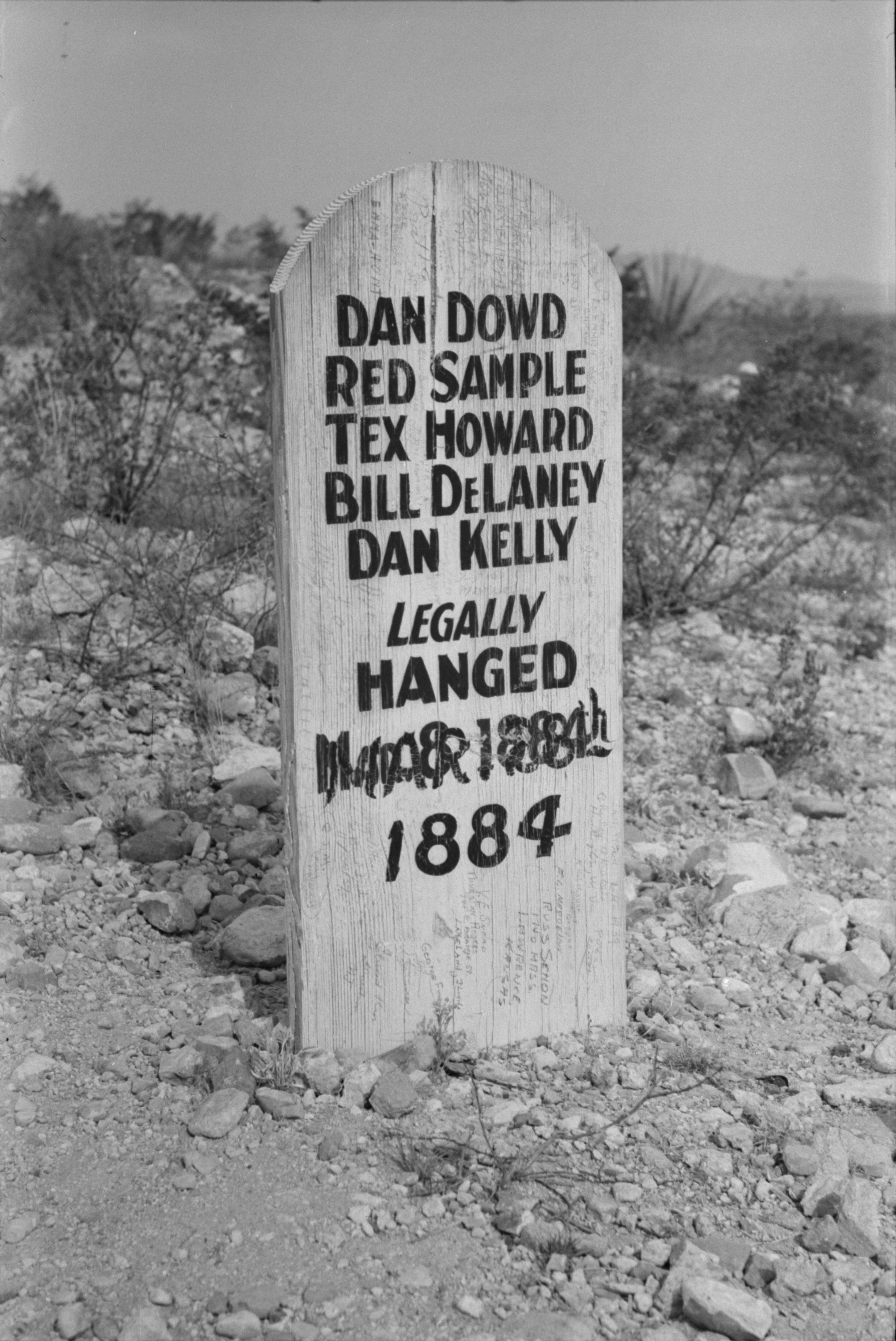 Tombstone in Boothill Cemetery, Tombstone, Arizona